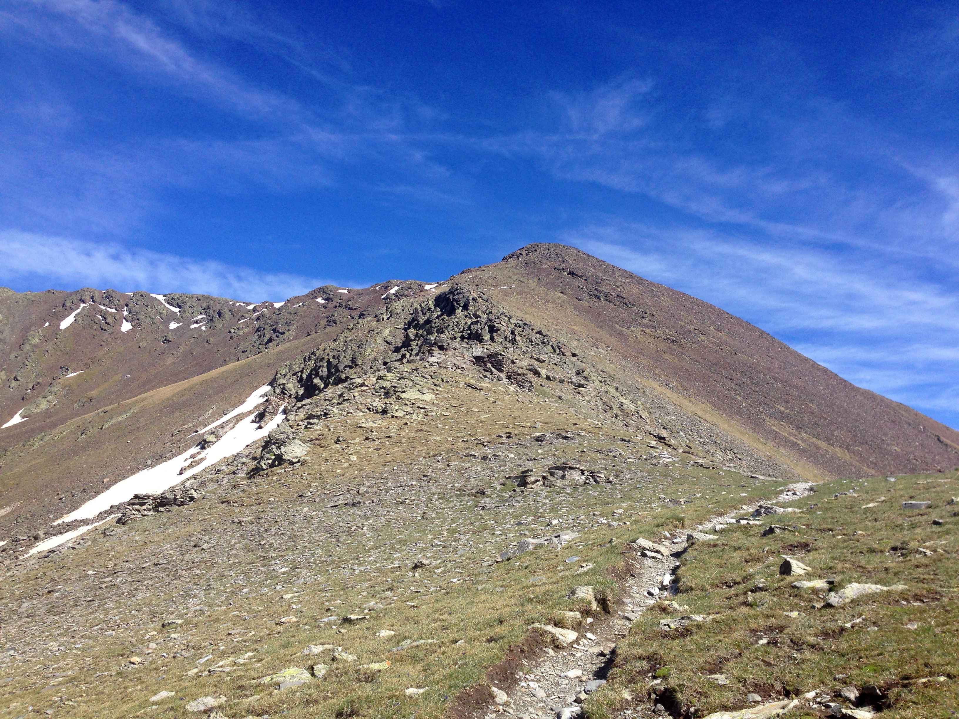 The Pic de Noucreus (2799 m), seen from the Coll de Noufonts.